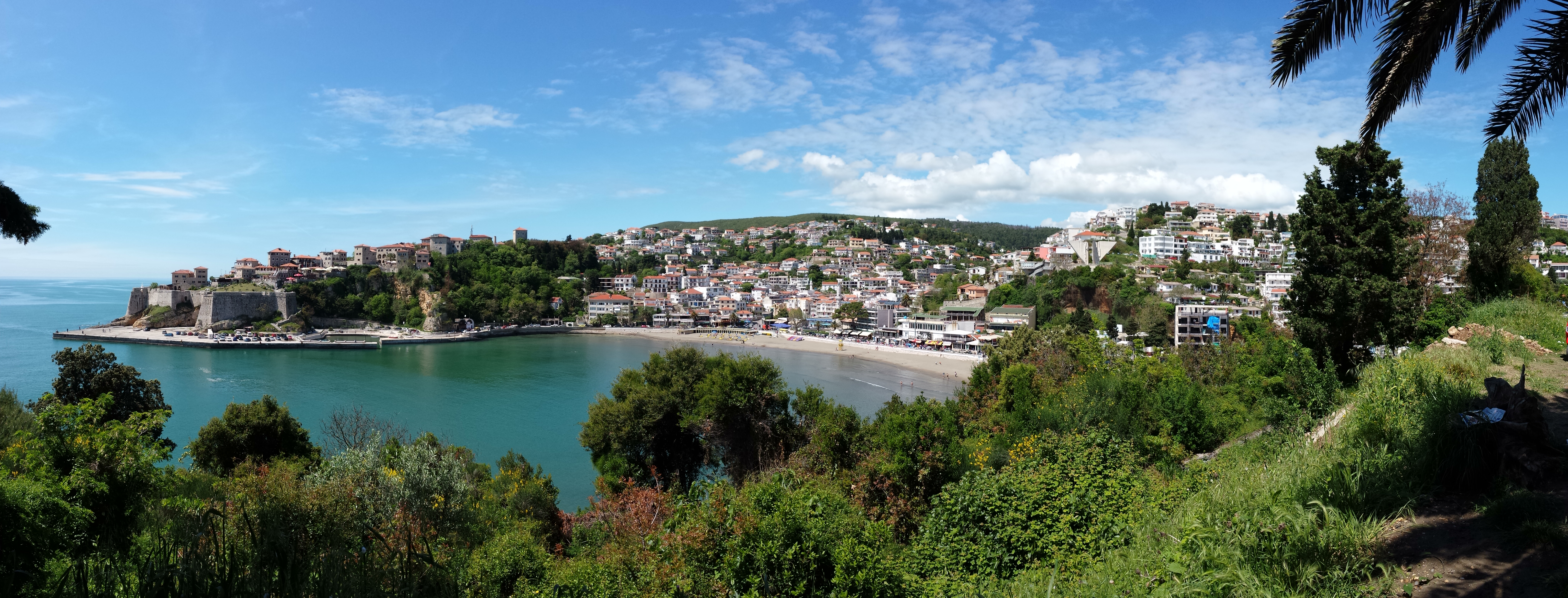 Panoramic view of Dulcigno.